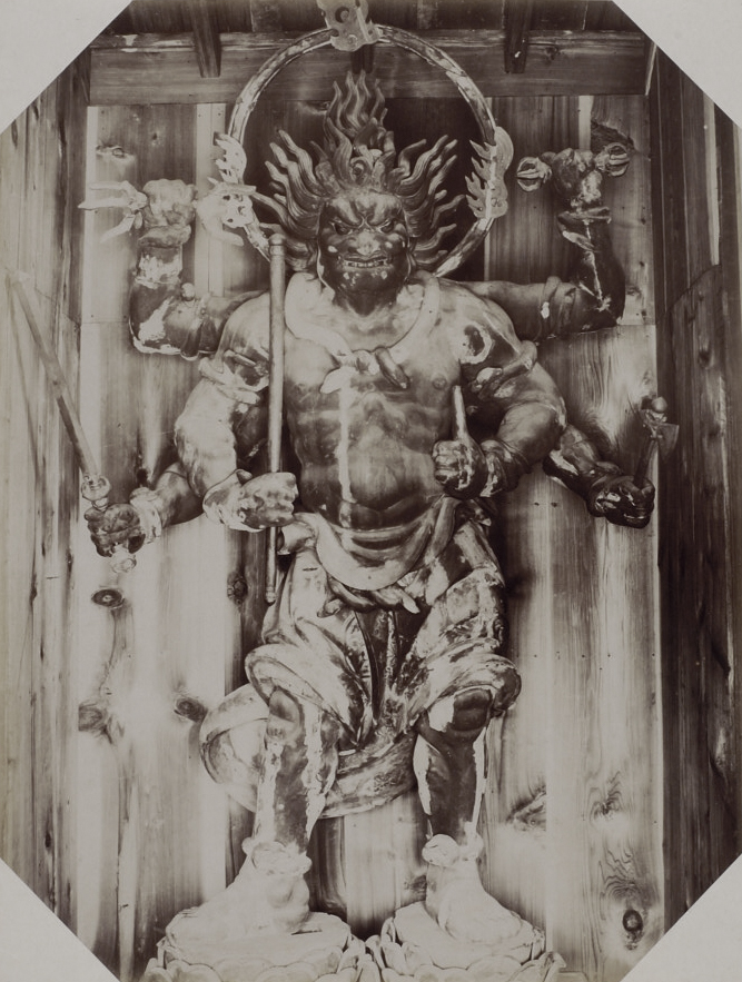 Daigensui Myoo, Akishinodera, Nara, Nara, Japan